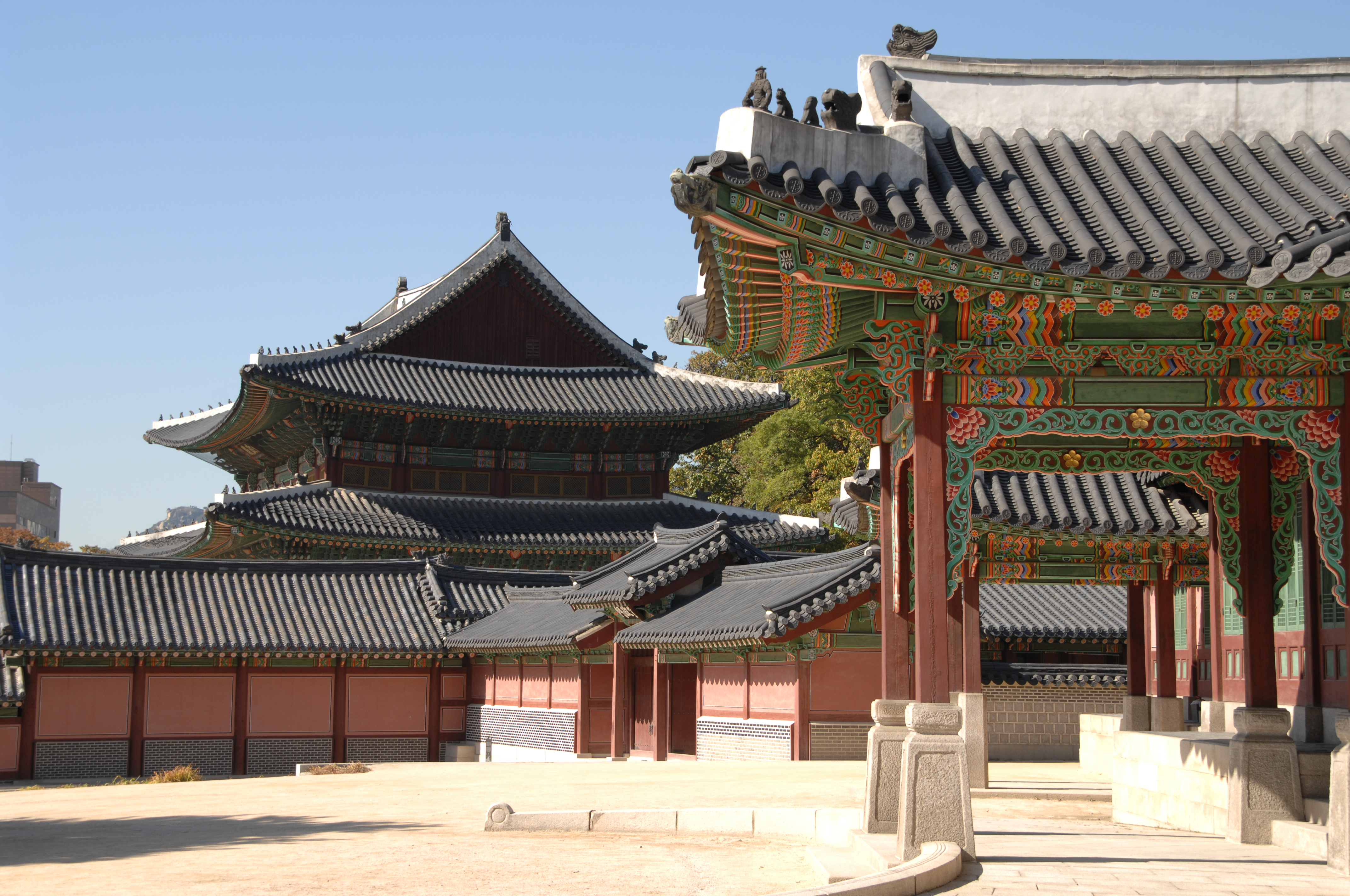 FROM SIGN AT PALACE ENTRANCE: Changdeokgun Palace was constructed in 1405, the fifth year of King Taejong (r.1400-1418), the third Joseon Gyeongbokgung Palace was to the west and Changdeokgung Palace to the east. All of the palace buildingS were destroyed by fire during the Japanese invasion of 1592. Changdeokgung was restored in 1610 and served as the main palace for 270 year until Gyeongbokgung was finally reconstructed in 1868 during the reign of King Gojong. Since the palace was to the east of Gyeongbokgung, where major buildings are arranged in accordance with the main axis of the meridian, Changdeokgung is laid out in harmony with the area’s topography; the palace architecture has a dissymmetric beauty that is unique to Korea. The layout of Changdeokgung is welcoming and offered the royal residents much convenience. It influenced the layout of other major palaces. The buildings of Changdeokgung Palace including Daejojeon, the queen’s residence, were destroyed in 1917 by fire. To replace them, buildings at Gyeongbokgung Palace were dismantled and moved here. In the process, many structures were modified or damaged. Full restoration work began in 1991 and is still under way. Despite all of the damage done to the palace in the years past, Changdeokgung is relatively well preserved and is representative of Korean palace architecture. The garden of Changdeokgung is one of the most enchanting spaces in Korea. The Changdeokgung Palace complex was inscribed on the USESCO World Cultural Heritage List in 1997 for its outstanding architecture and a design that is in harmony with the landscape.US Army photo by Edward N. Johnson, Installation Management Command, Korea RegionThese images are generally cleared for release and considered in the public domain. Request credit be given the US Army and individual photographer.To learn more about living and working for the U.S. Army in Korea visit us online at: or